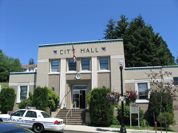 The city hall building in Toledo, a city in Lincoln County, Oregon, United States